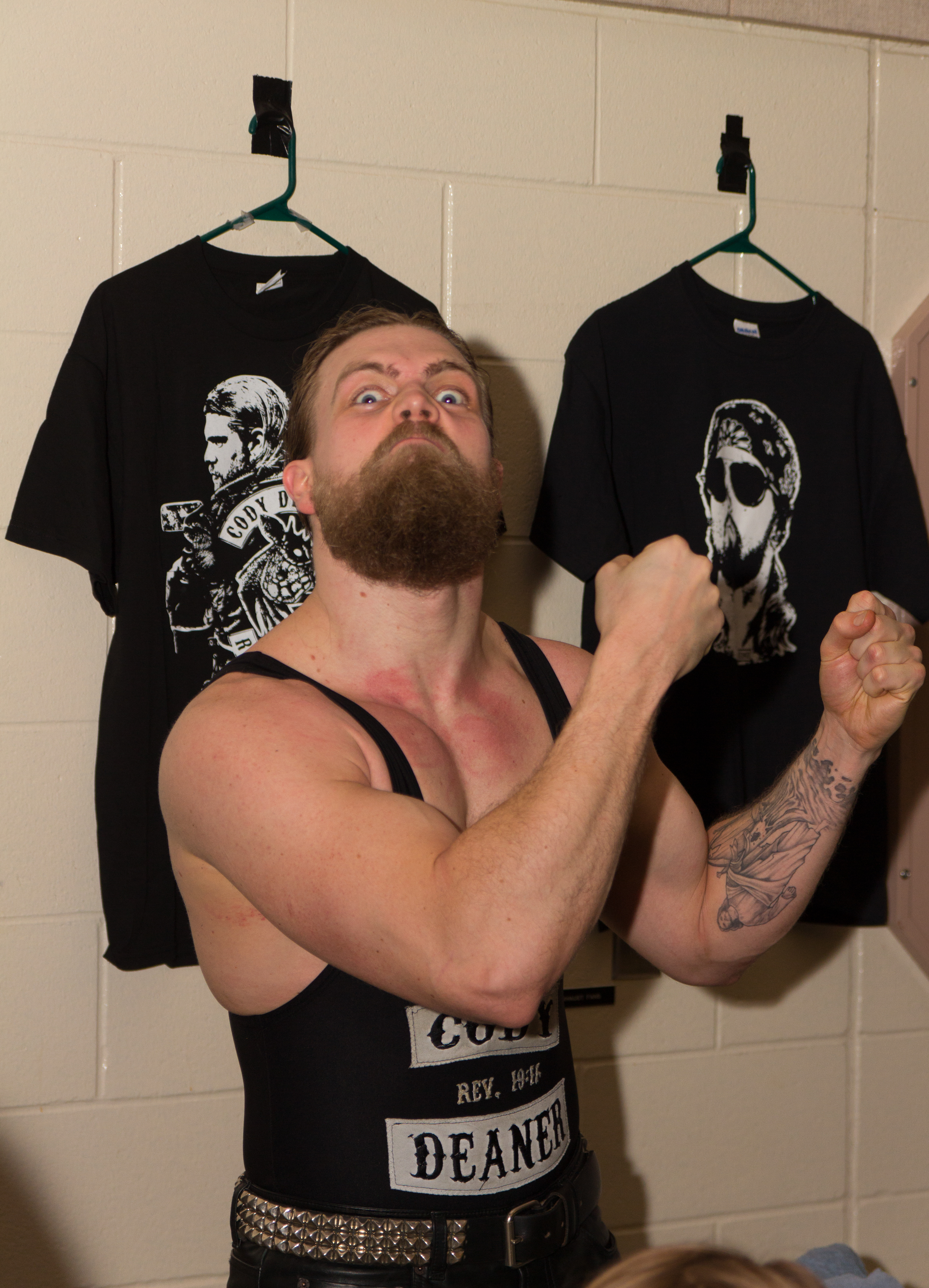 Cody Deaner posing at a CPW show in Woodstock